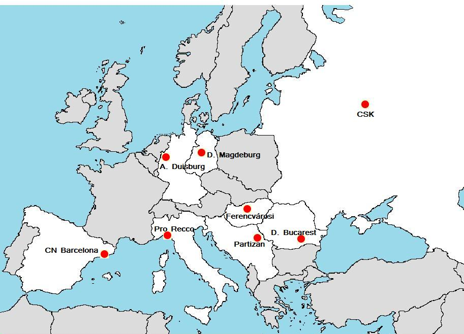 LEN Champions League 1965-1966 teams geographic distribution.